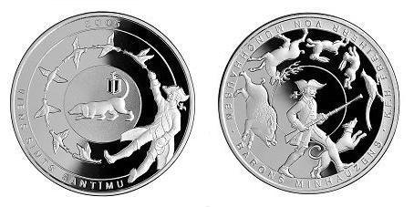 Baron Münchhausen - 1 Lats (2005) Weight: 31.47 g Diameter: 38.61 mm Metal: silver, fineness .925 Quality: proof Artists: Arvids Priedite (graphic design), Janis Strupulis (plaster model) Obverse: A dog with a lantern tied to its tail is depicted on a dull surface in the central field of the coin. It is surrounded by a row of seven flying ducks, with Baron Münchhausen clutching at the last one, against a smooth background. The inscription 2005 is arranged in a semicircle at the top of the coin; a semicircular inscription VIENS SIMTS SANTĪMU (one hundred santims) is in the left lower part of the coin. Reverse: The images of Baron Münchhausen's stories are depicted in a circle against a smooth background: the Baron himself with a rifle in his hands and a hunting dog at his feet, a pheasant, two hares, a deer and a wild boar. They are encircled by inscriptions BARONS MINHAUZENS and K.F.H. FREIHERR VON MÜNCHHAUSEN, separated by a dot, against a dull background. Edge: Inscriptions LATVIJAS BANKA (Bank of Latvia) and LATVIJAS REPUBLIKA (Republic of Latvia), separated by a dot.